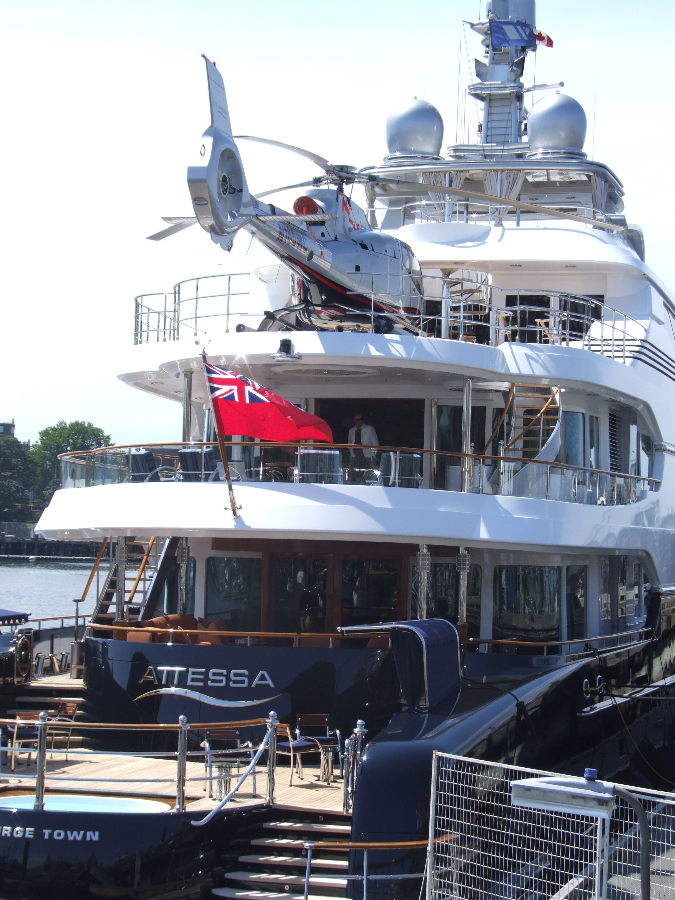 The Attessa III (formerly the Aviva), a yacht currently owned by Dennis Washington.